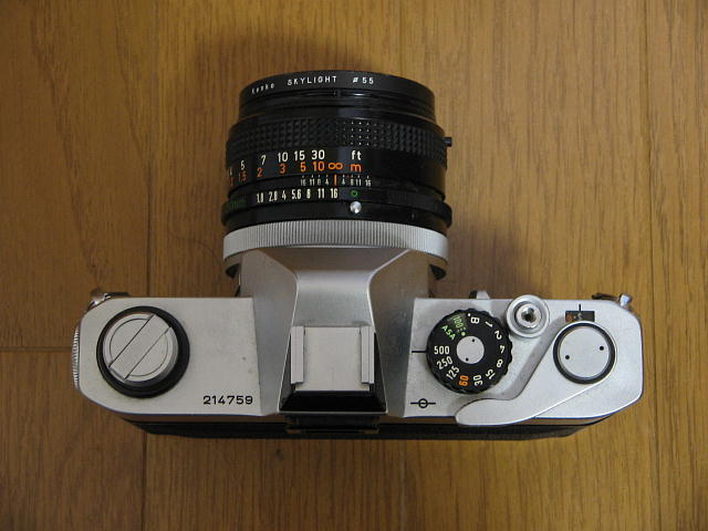 Top view of Canon TLb SLR camera